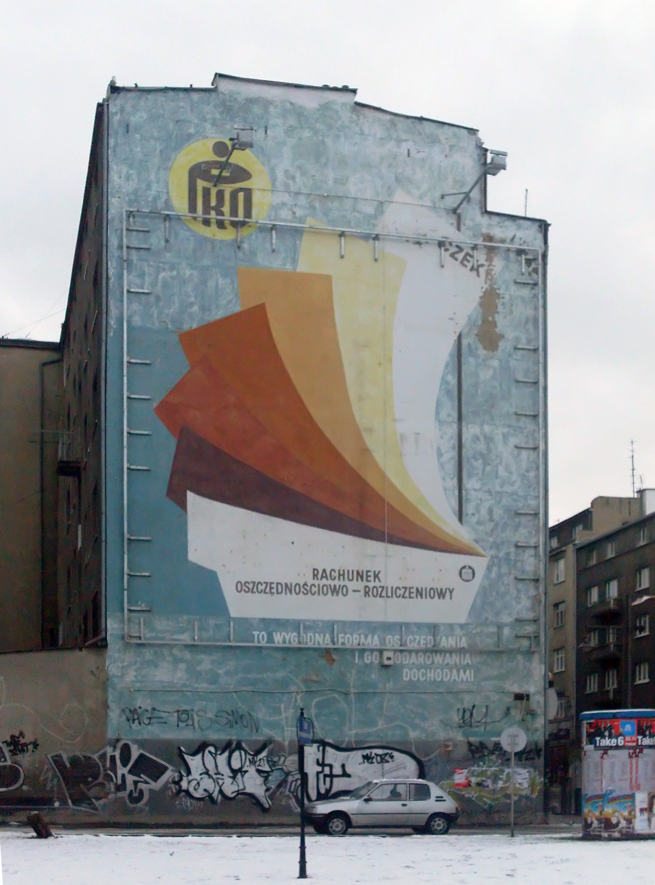 Mural in Gdynia. Unremembered advertisement of PKO Bank Polski. There exist many years.